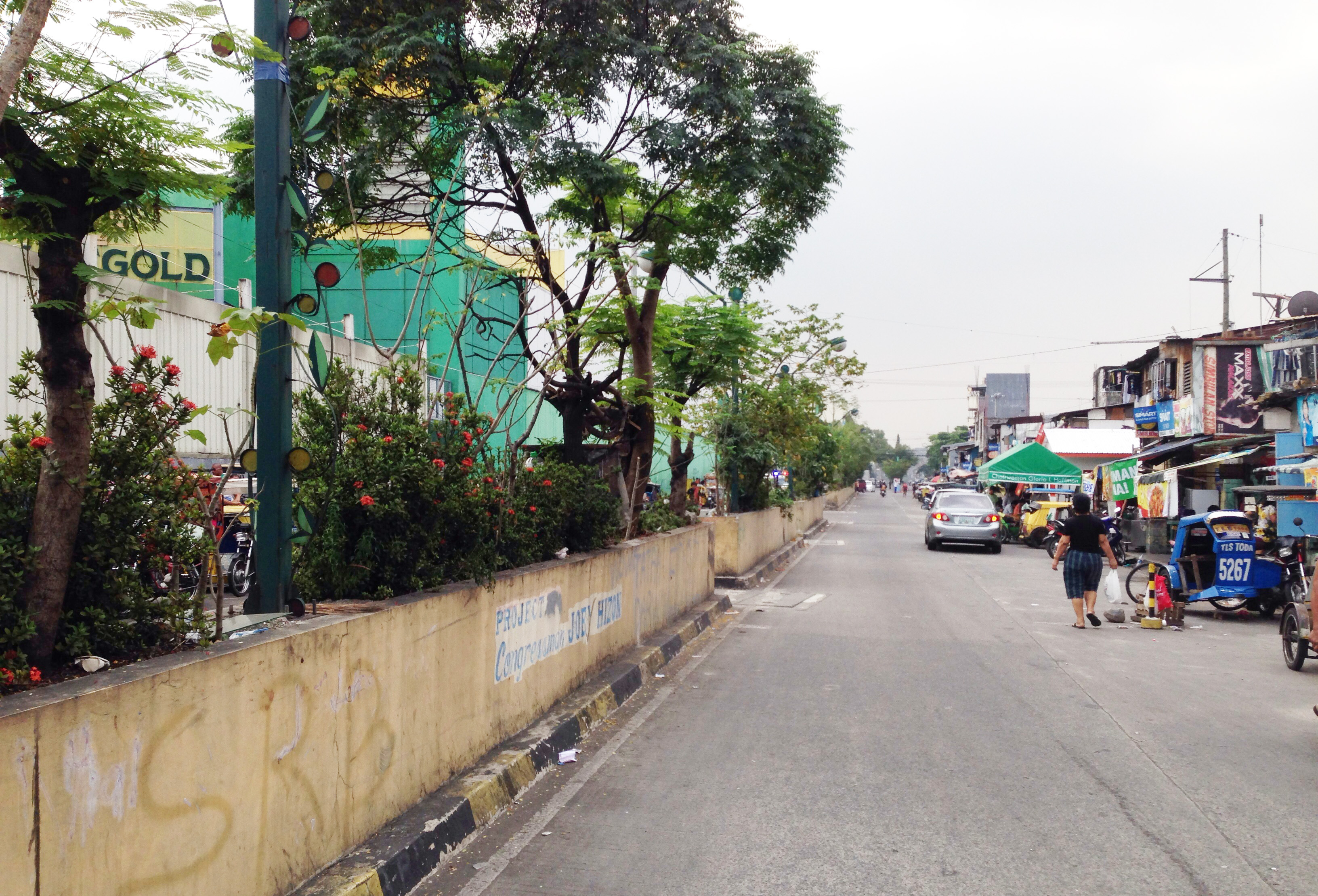 Zobel Roxas Street in Santa Ana, Manila. The street forms the border between the City of Manila and Makati.